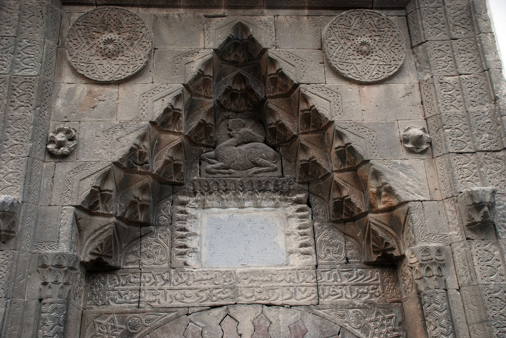 Niksar, Tokat province, Çöreği Büyük Tekkesi, portal